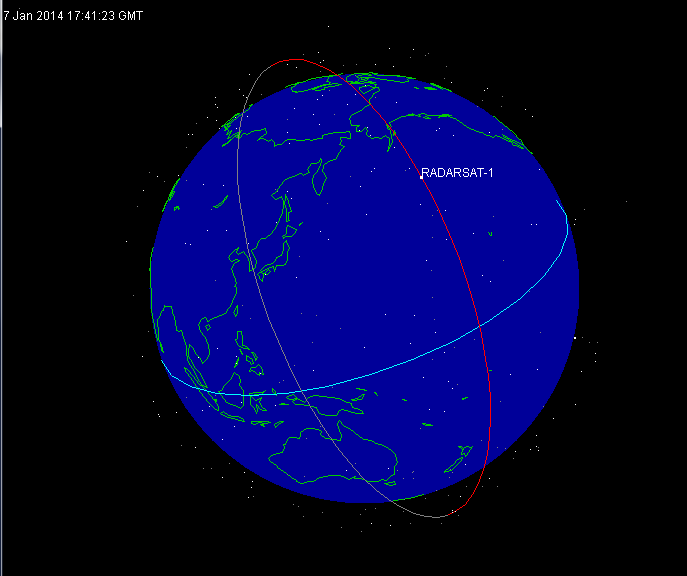 Orbital path of the Canadian Radarsat-1. Shows the satellite over the Pacific Ocean.